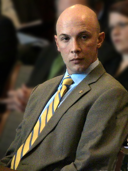 Rep Casey Guernsey, R-Bethany, watches Tim Gibbons of the Missouri Rural Crisis Center testify against his bill.